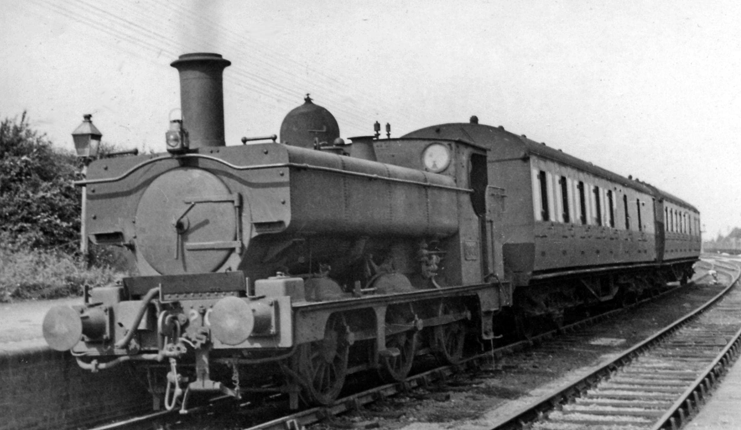 Lydney branch train at Berkeley Road station. View NE, towards the junction with the Birmingham - Bristol main line: ex-GW & Midland (Severn & Wye) Joint line. The auto-train has been propelled from Lydney (Town) over the Severn Bridge by motor-fitted '2021' class 0-6-0PT No. 2080 (built 9/1900, withdrawn 3/52). For closure dates, see SO7100 : Berkeley Road Station.